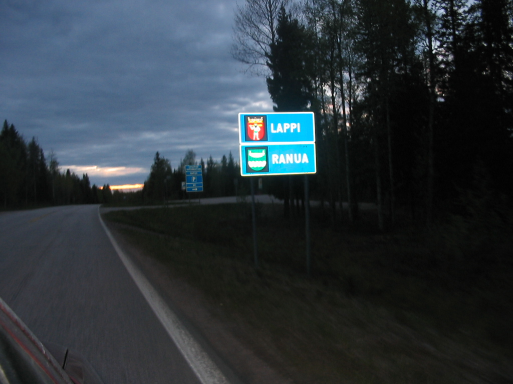 Main road 78 at the border of the town of Pudasjärvi and the municipality of Ranua, Finland